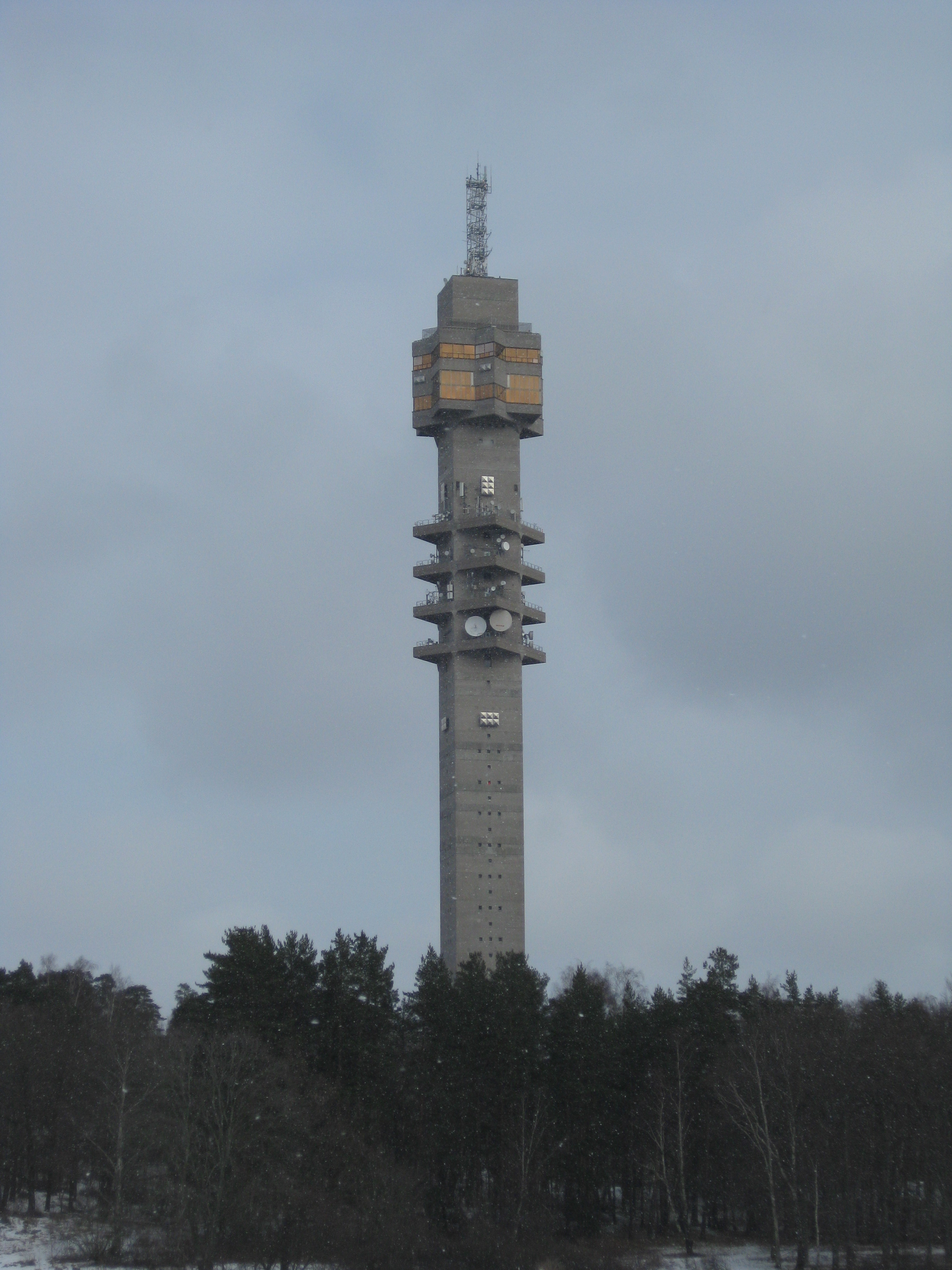 Photo of the Kaknästornet TV tower in Stockholm, in winter.